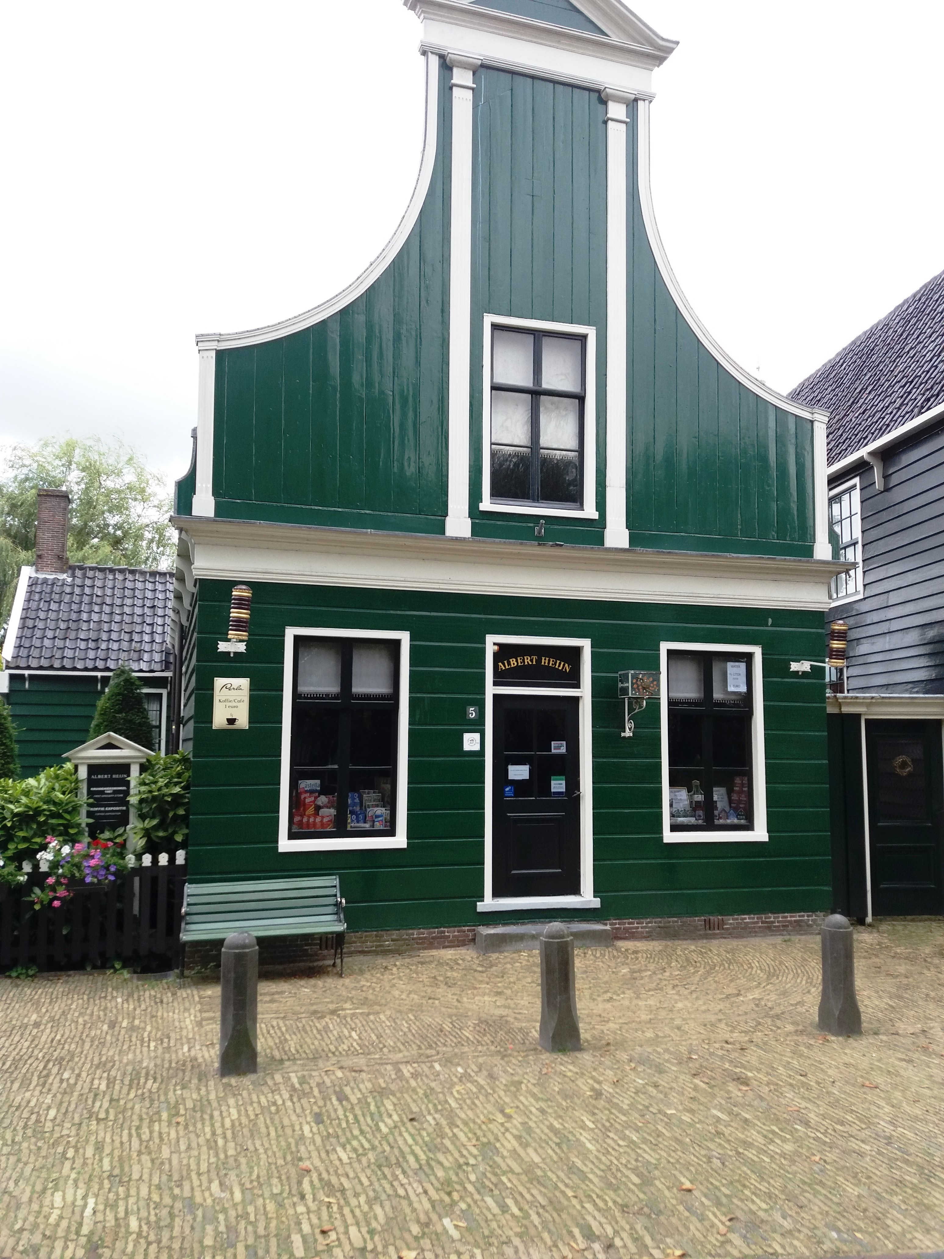 Albert Heijn Shop at Zaanse Schans.